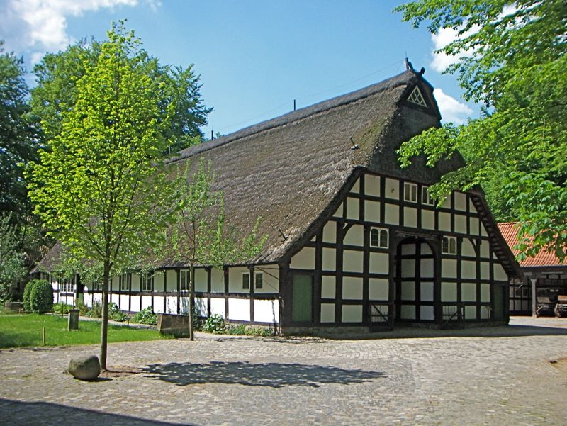 District museum in Syke, founded 1937. Lower Saxony, Germany. The photo shows the main building of the museum, a farm house built in 1747.